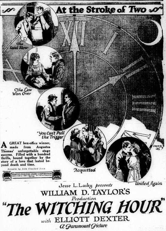 Advertisement for the American drama film The Witching Hour (1921), on page 41 of the February 18, 1921 Variety.